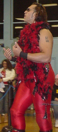 An image of professional wrestler Snot Dudley in September 2005.